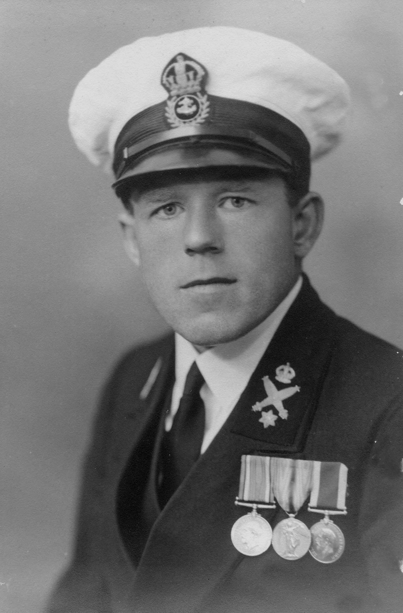 CPO Claude Choules photographed in 1936 at HMAS Cerberus